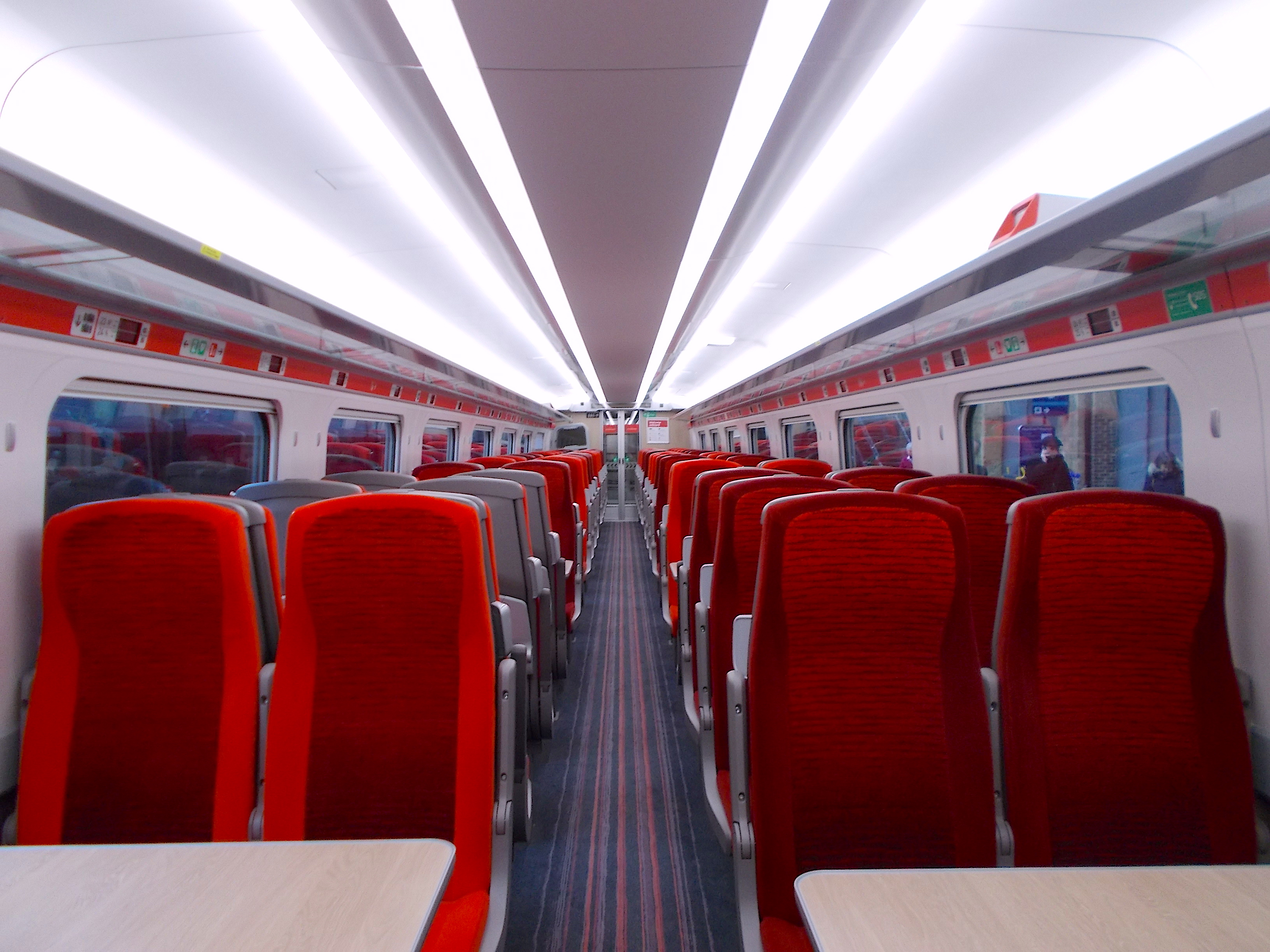 A half internal view of Standard Class aboard a LNER Hitachi Class 800/1, showing the Virgin Trains style